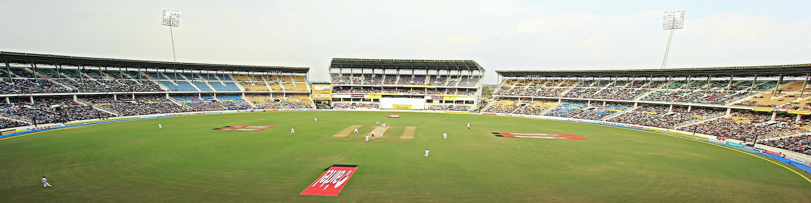 Panoramic view of VCA stadium,nagpur.